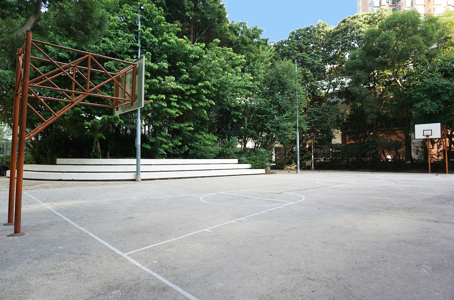 Yue Tin Court in Yuen Chau Kok, Hong Kong.